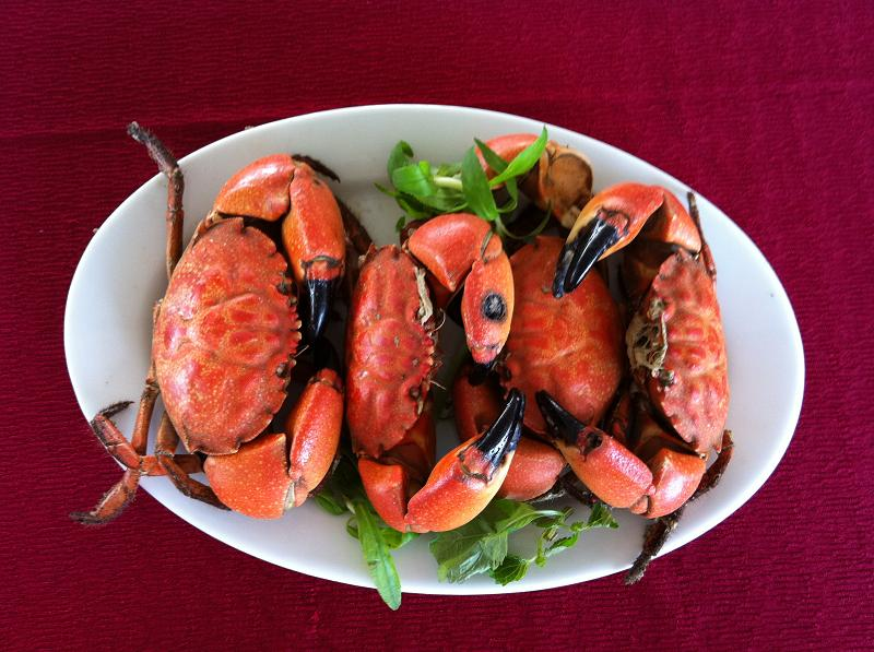 Boiled Myomenippe hardwickii (crab)